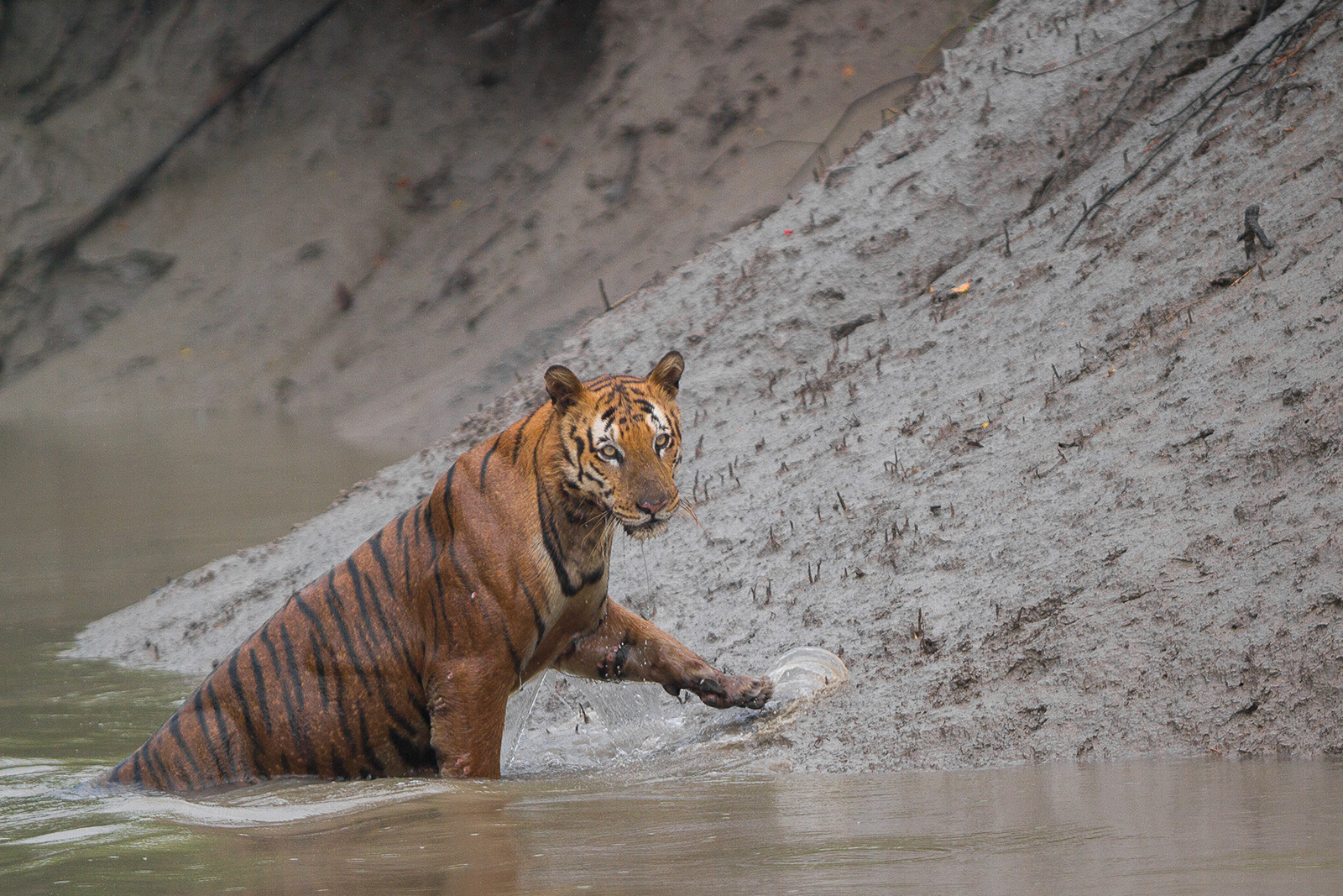 Bengal Tiger looking before getting out of the water at Sundarban Tiger Reserve, West Bengal, India.